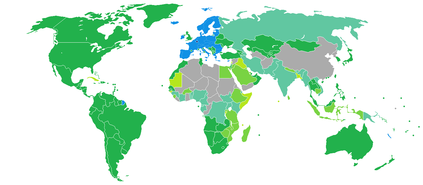 Visa requirements for Luxembourgish citizens Luxembourg Freedom of movement Visa not required Visa on arrival eVisa Visa available both on arrival or online Visa required prior to arrival